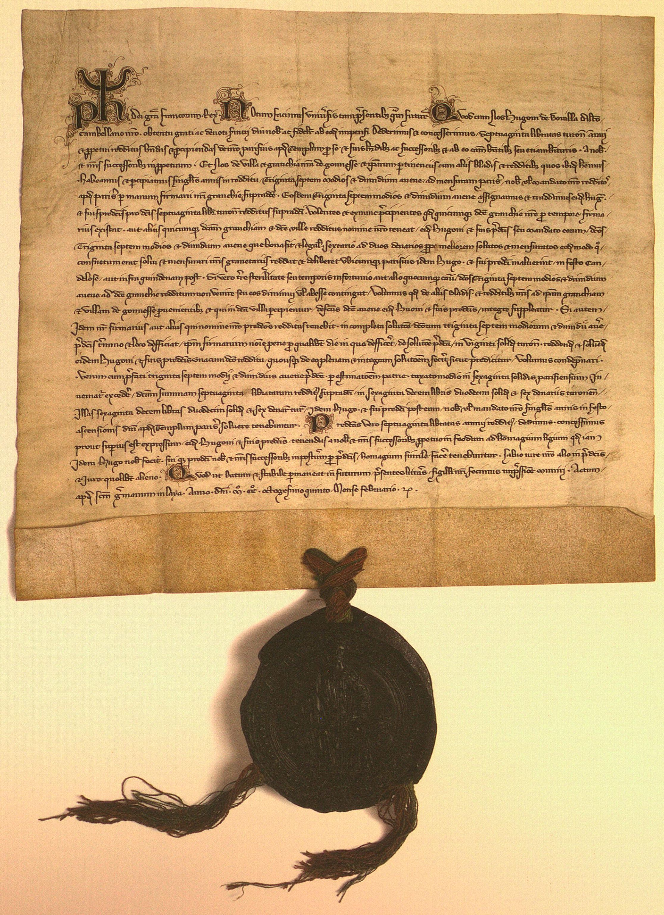 A charter of King Philip IV of France. Paris, Archives nationales, J 396, No. 10.